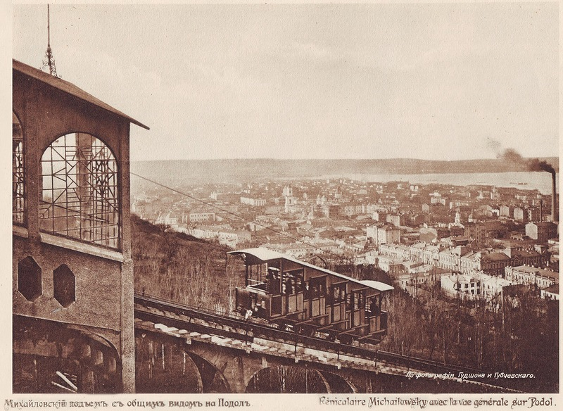 Kiev Funicular